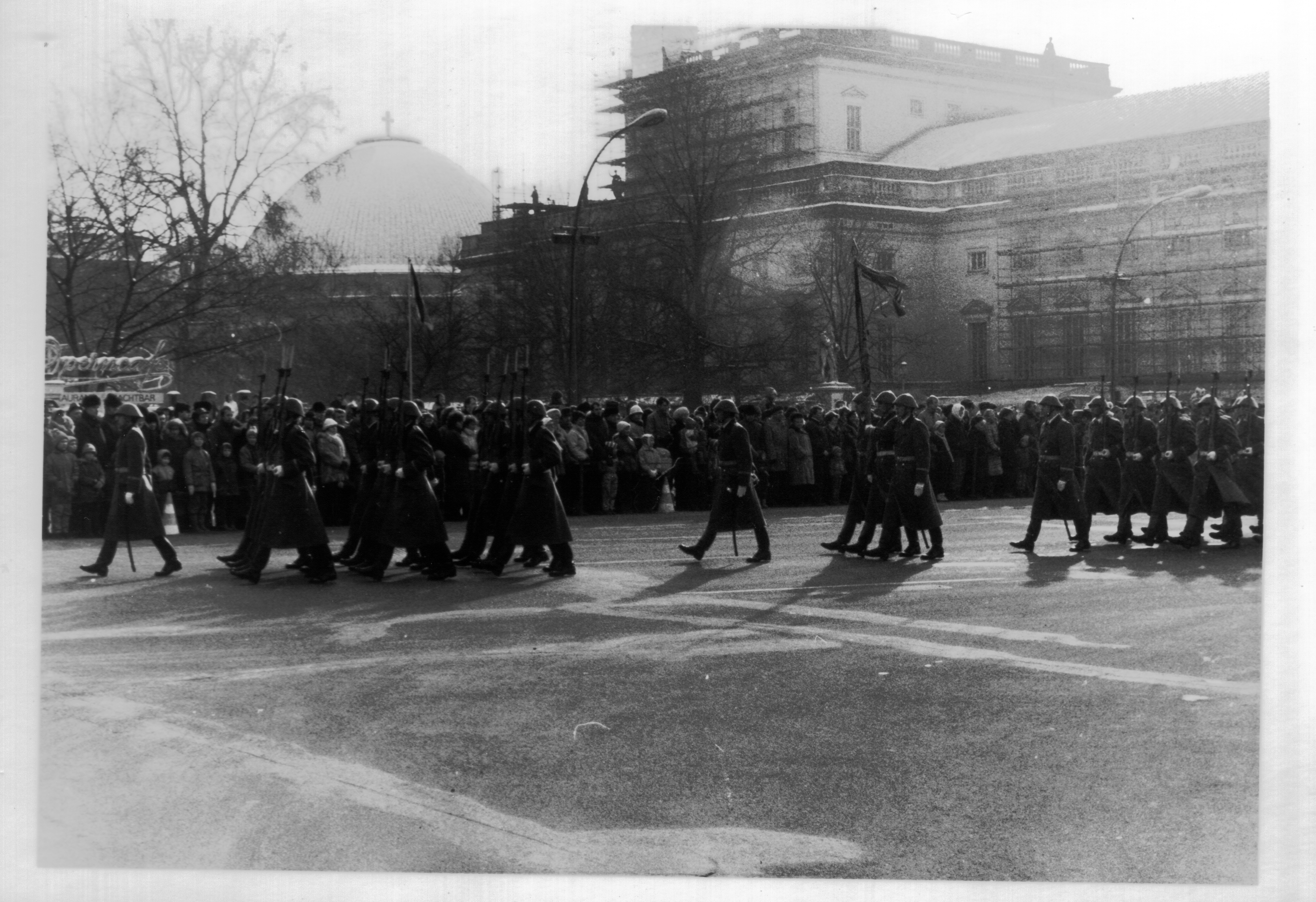 Tag der Nationalen Volksarmee Parade of 1986 at the Neue Wache, Unter den Linden